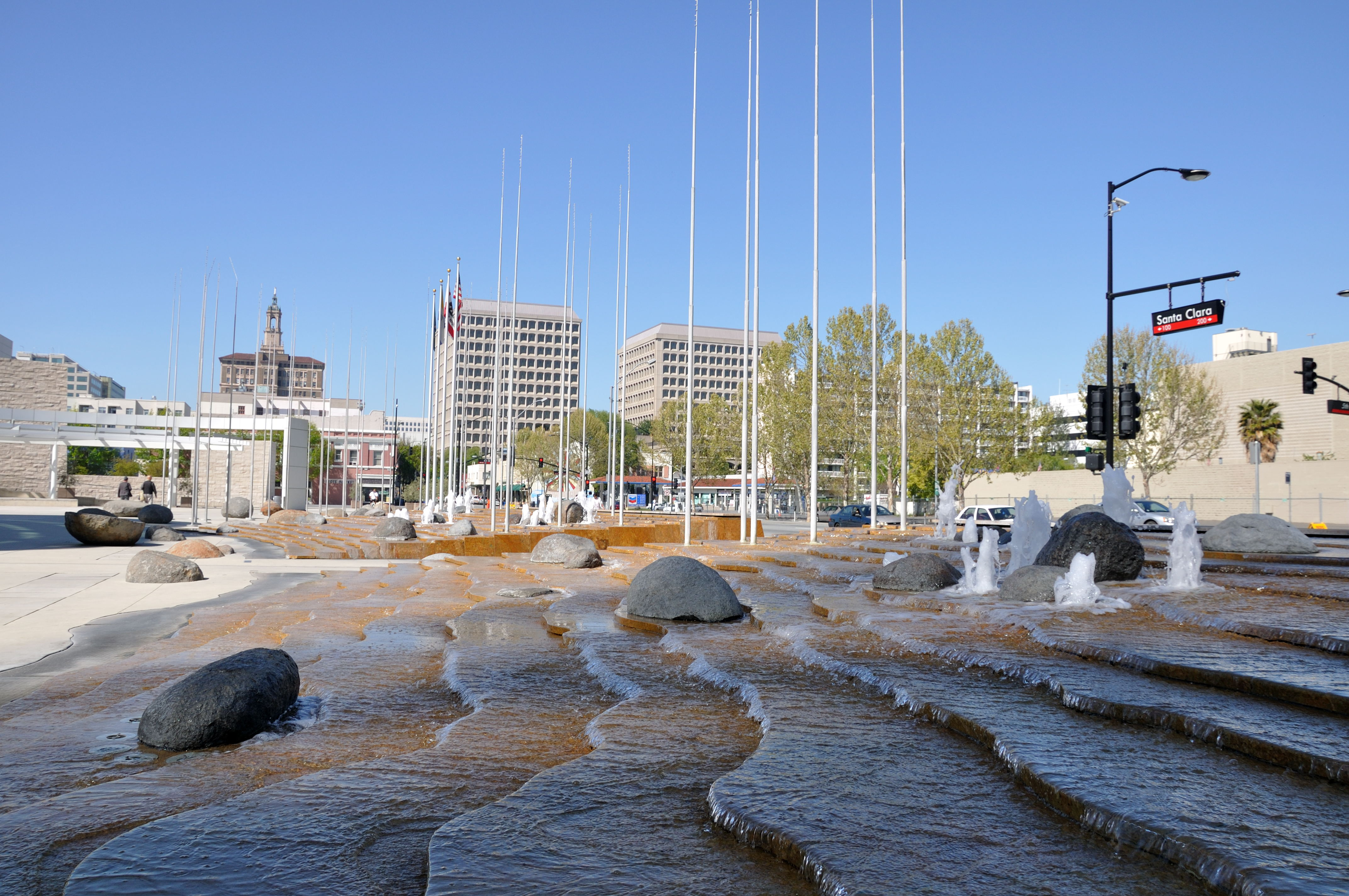 Scene from downtown San Jose at City Hall